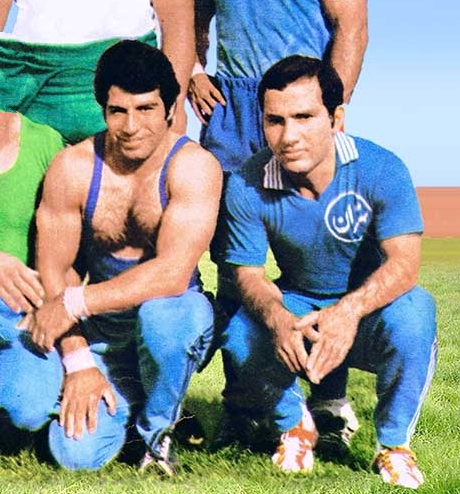 Iranian Weightlifting Team heading to the Soviet Union. Fazlollah Dehkhoda and Feizollah Nasseri